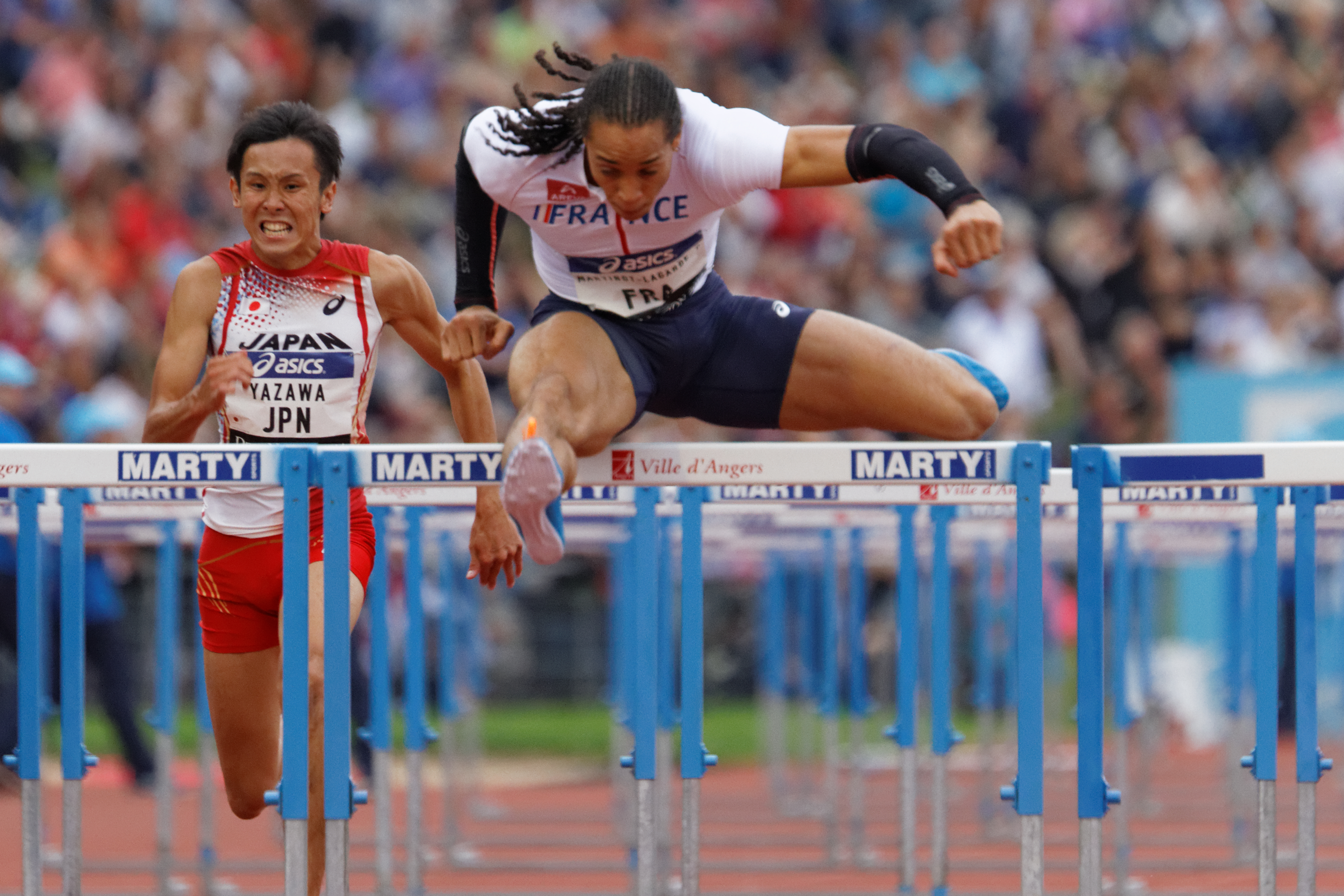 DécaNation 2014. 110m hurdles.